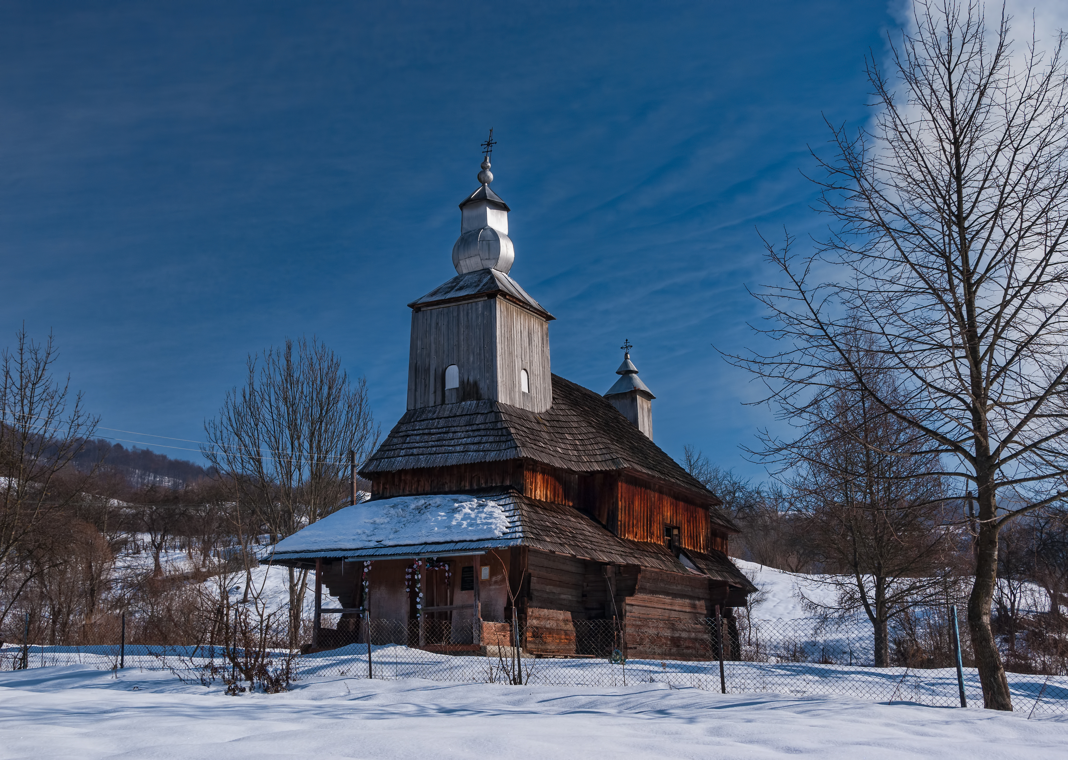 Wooden St. Basil Church, Sil, Velykyi Bereznyi Raion, Ukraine, national architectural monument.